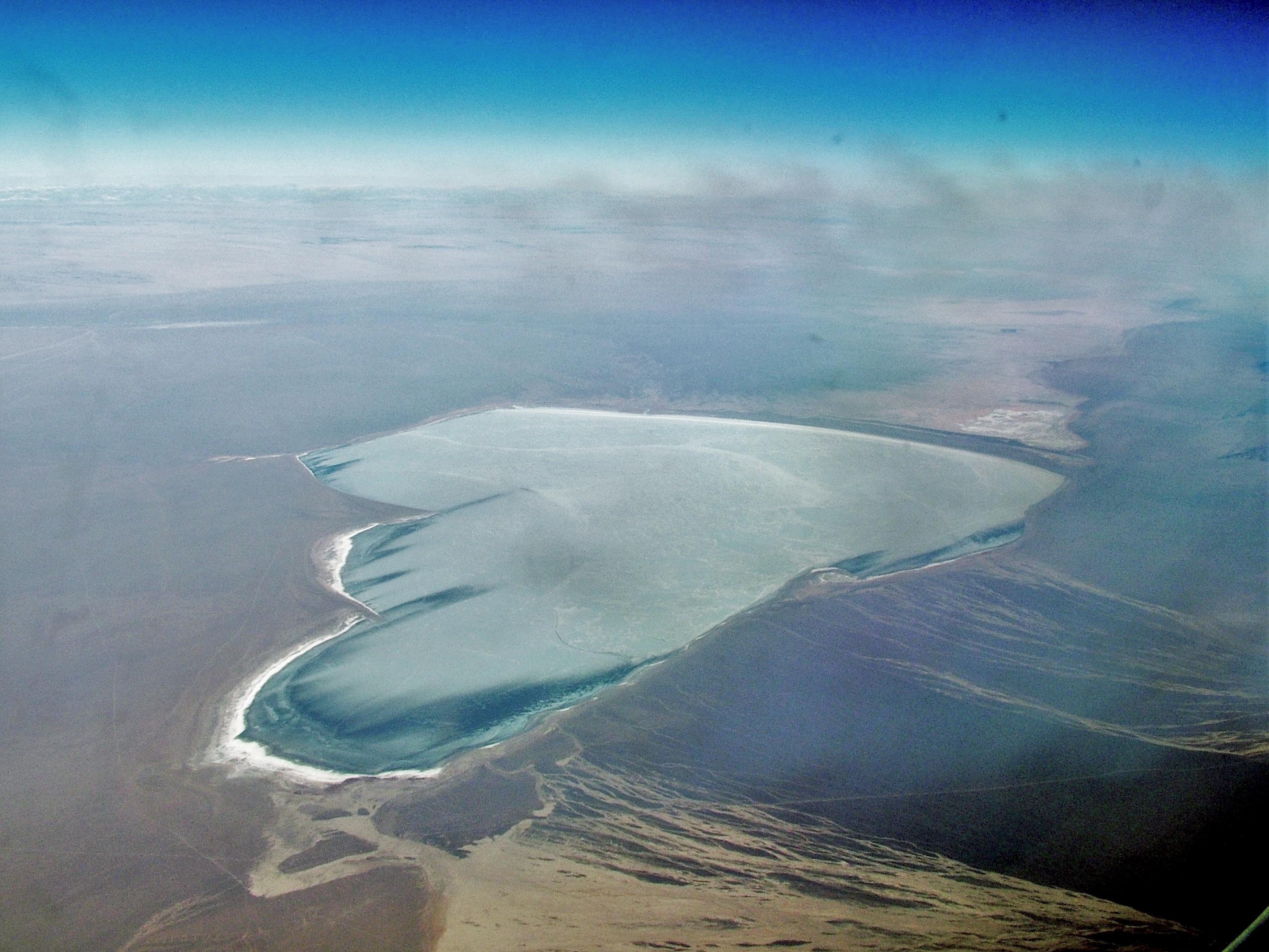 Taken onboard a flight from Hong Kong to London